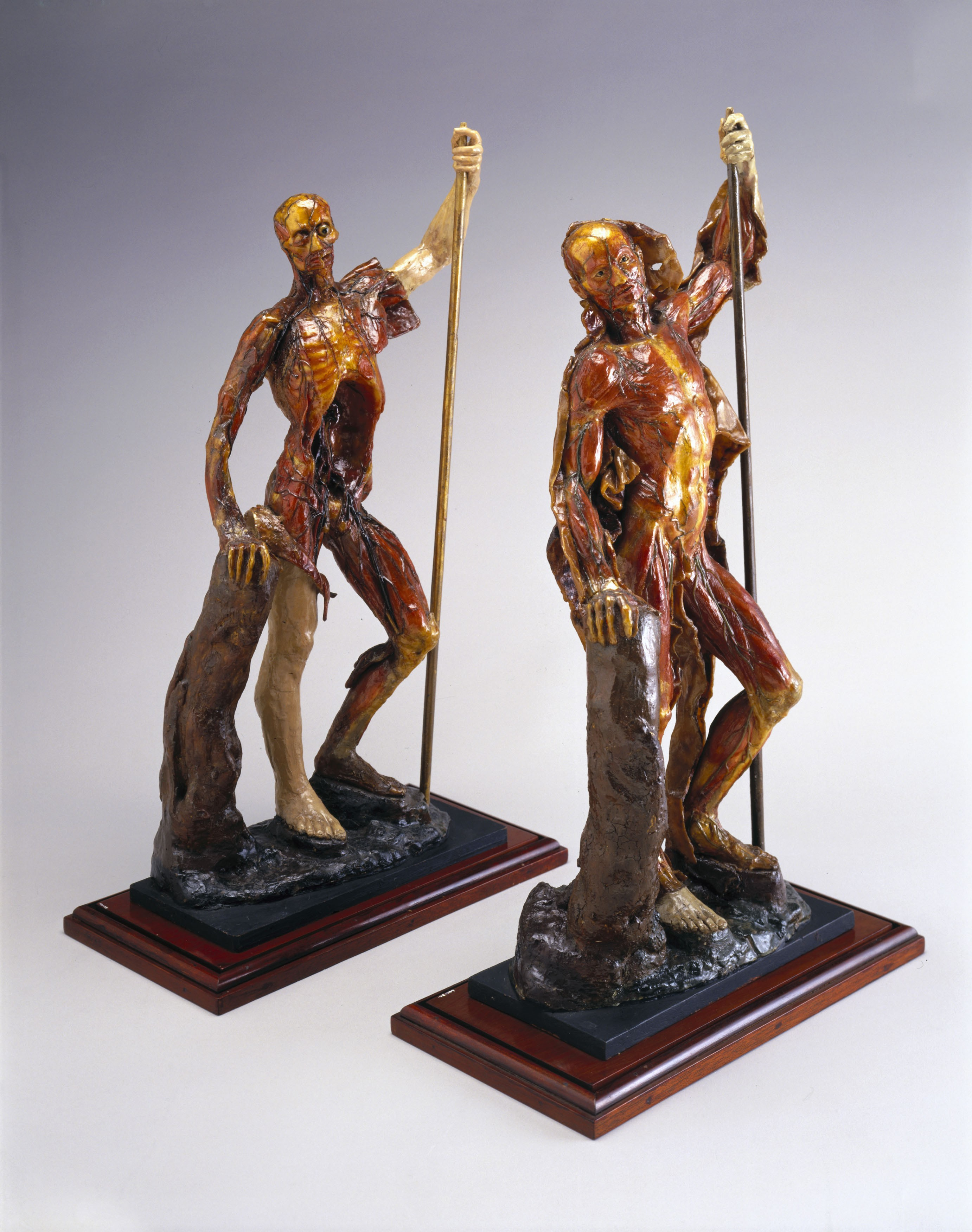 Wax male anatomical figure, Italy, 1750-1774 The wax and plaster model is a superficial dissection of a male body where the skin layer is removed to show the veins, arteries and muscles. This style of model is known as écorché. This figure is the original model for a large wooden statue at the University of Bologna, used to teach anatomy. It is believed the model was made by Anna Manzolini (1716-1774). Manzolini was made a lecturer of anatomy at the University of Bologna in 1755. From 1760 until her death in 1774 she was the professor of anatomy at the university with the added title of Modellatrice, which means “Model maker”. Her models were famous throughout Europe for their accurate anatomical detail. This model was bought with a similar figure (A600129) in Italy for 400 lira. Medical Photographic Library